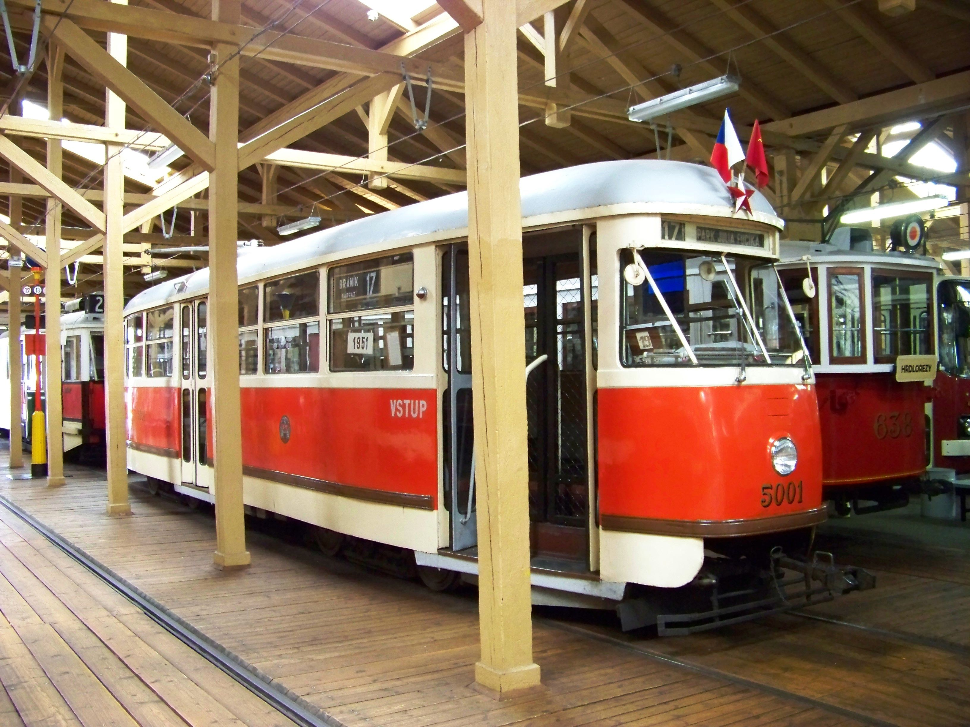 Prague-Střešovice, Czech Republic. Střešovice tram depot, Public Transport Museum. A tram Tatra T1.